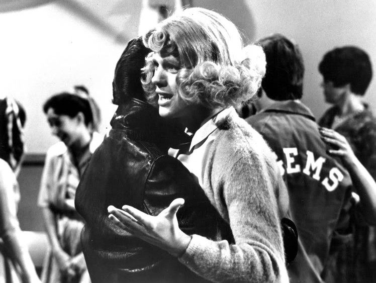 Photo of Richie (Ron Howard) dressed as a girl dancing with Fonzie (Henry Winkler) from the television program Happy Days. In this episode, Richie must dress as a girl and attend a Jefferson High School dance as part of an initiation.